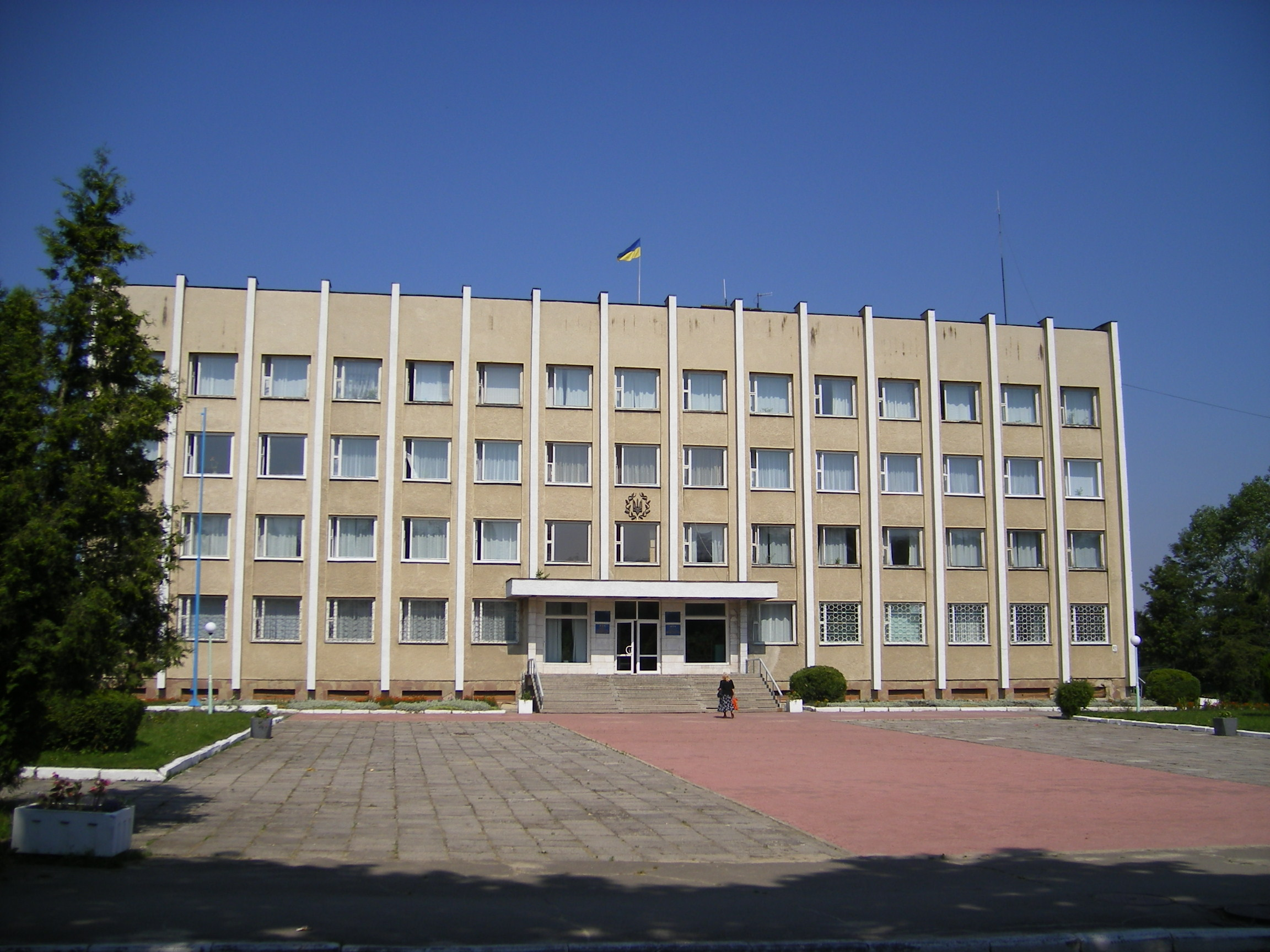 Boryslav, City administration building